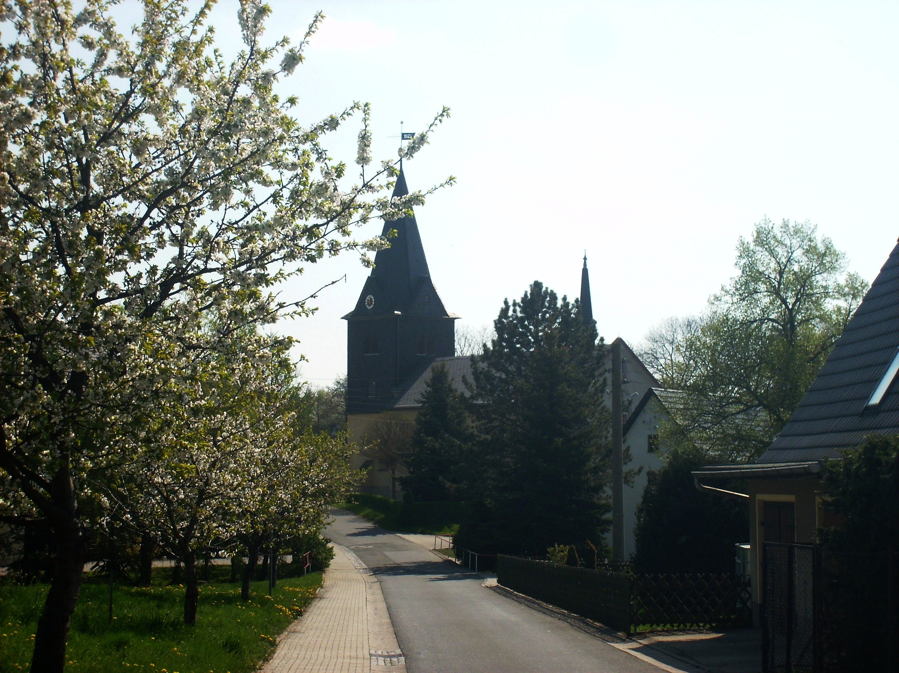 Street leading to Braunichswalde church (Greiz district, Thuringia)